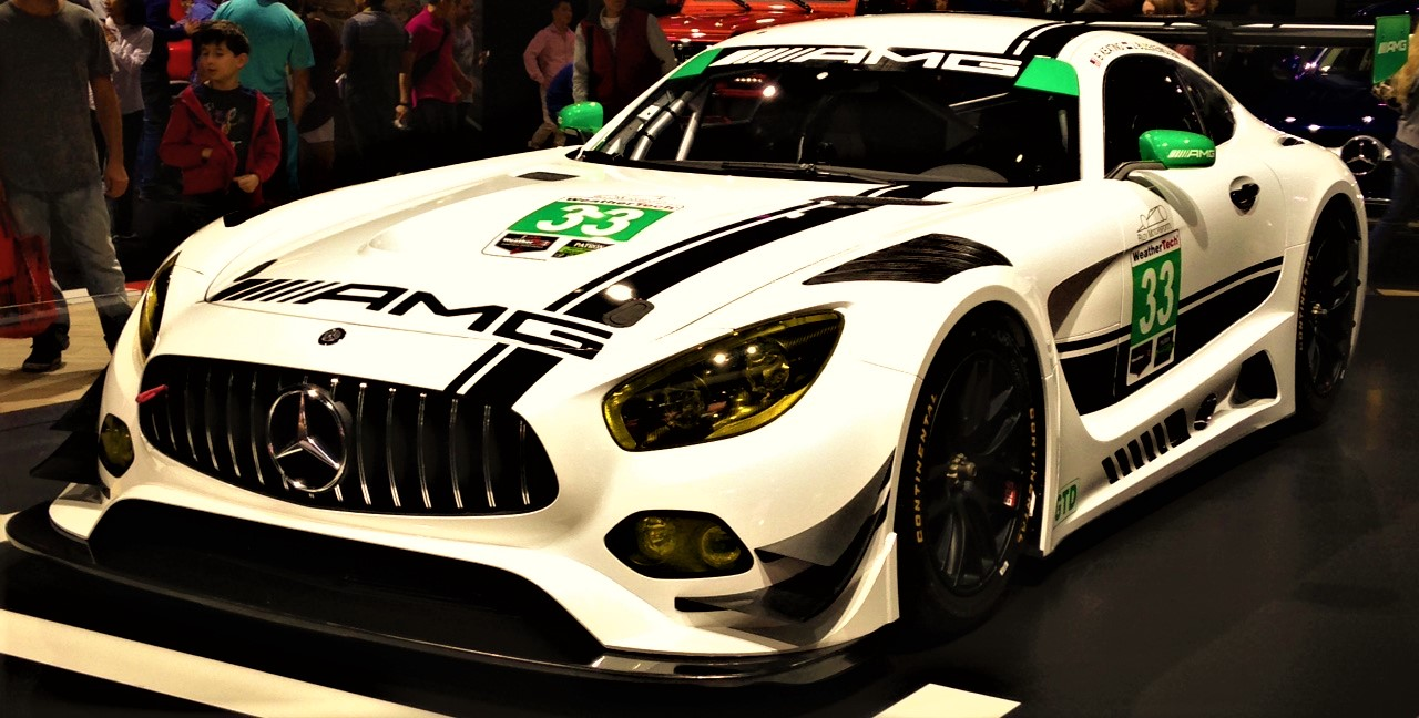 Mercedes-AMG C190 GT